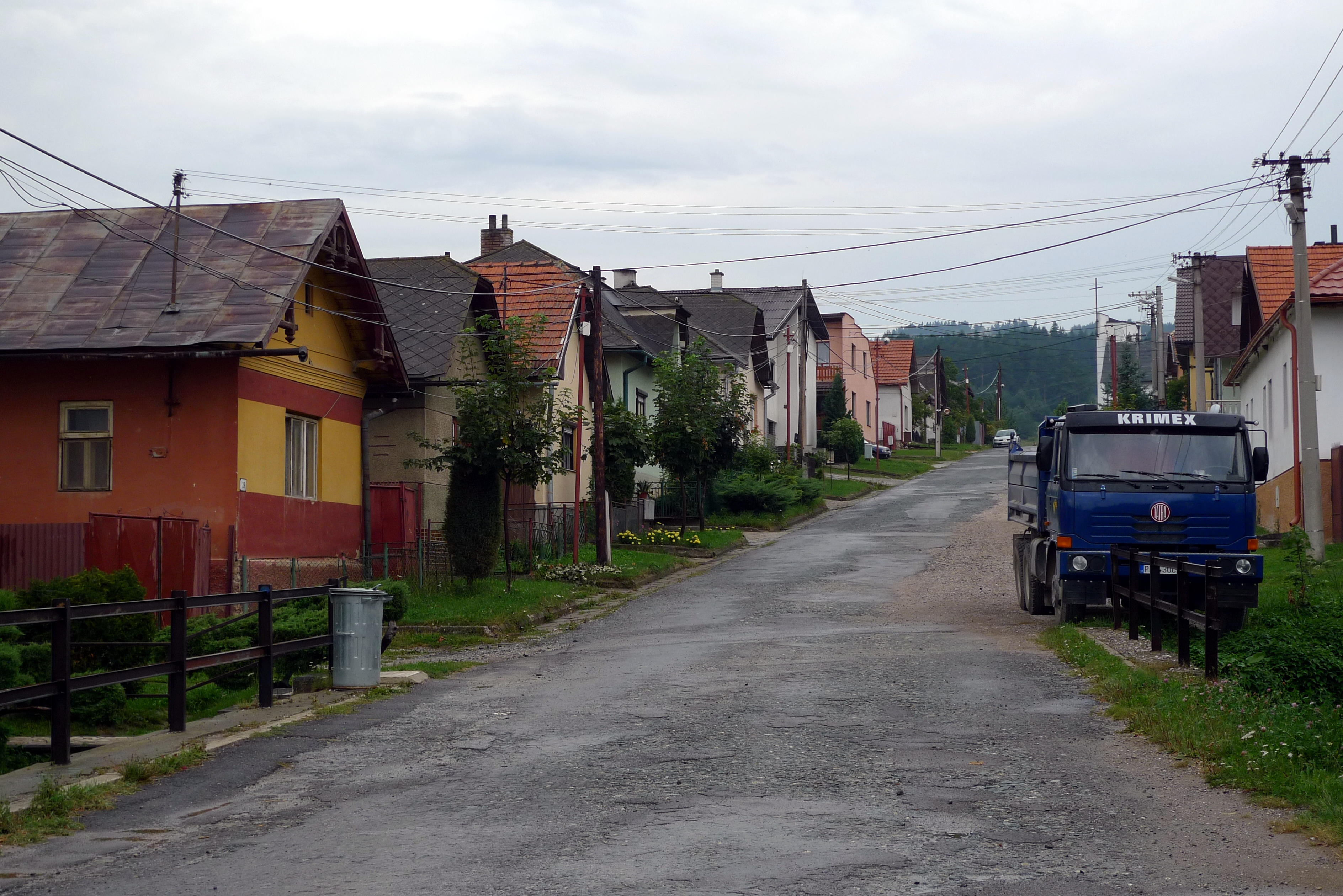 Dlhé Stráže - village in Slovakia